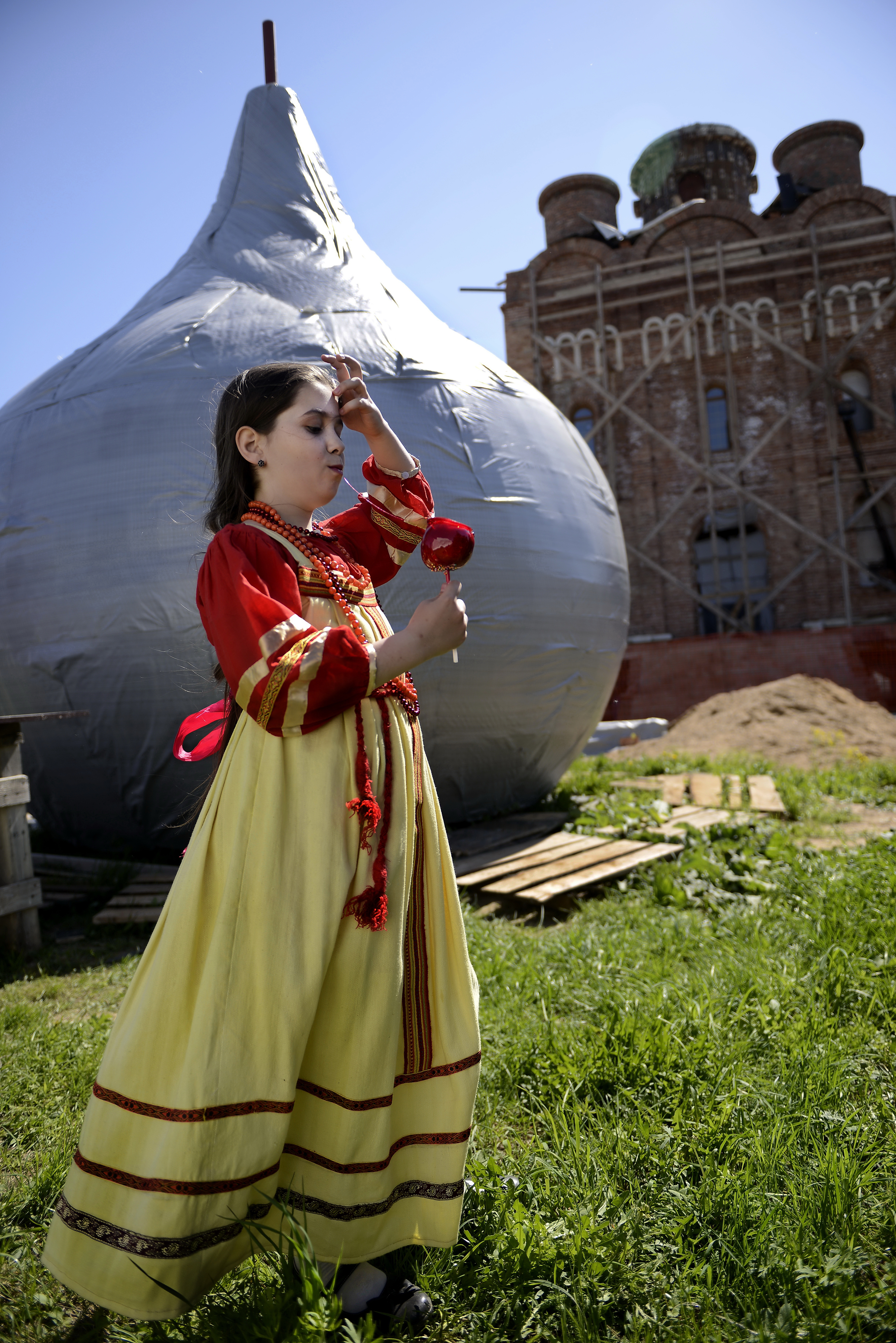 This photo has been taken in the country: Unknown